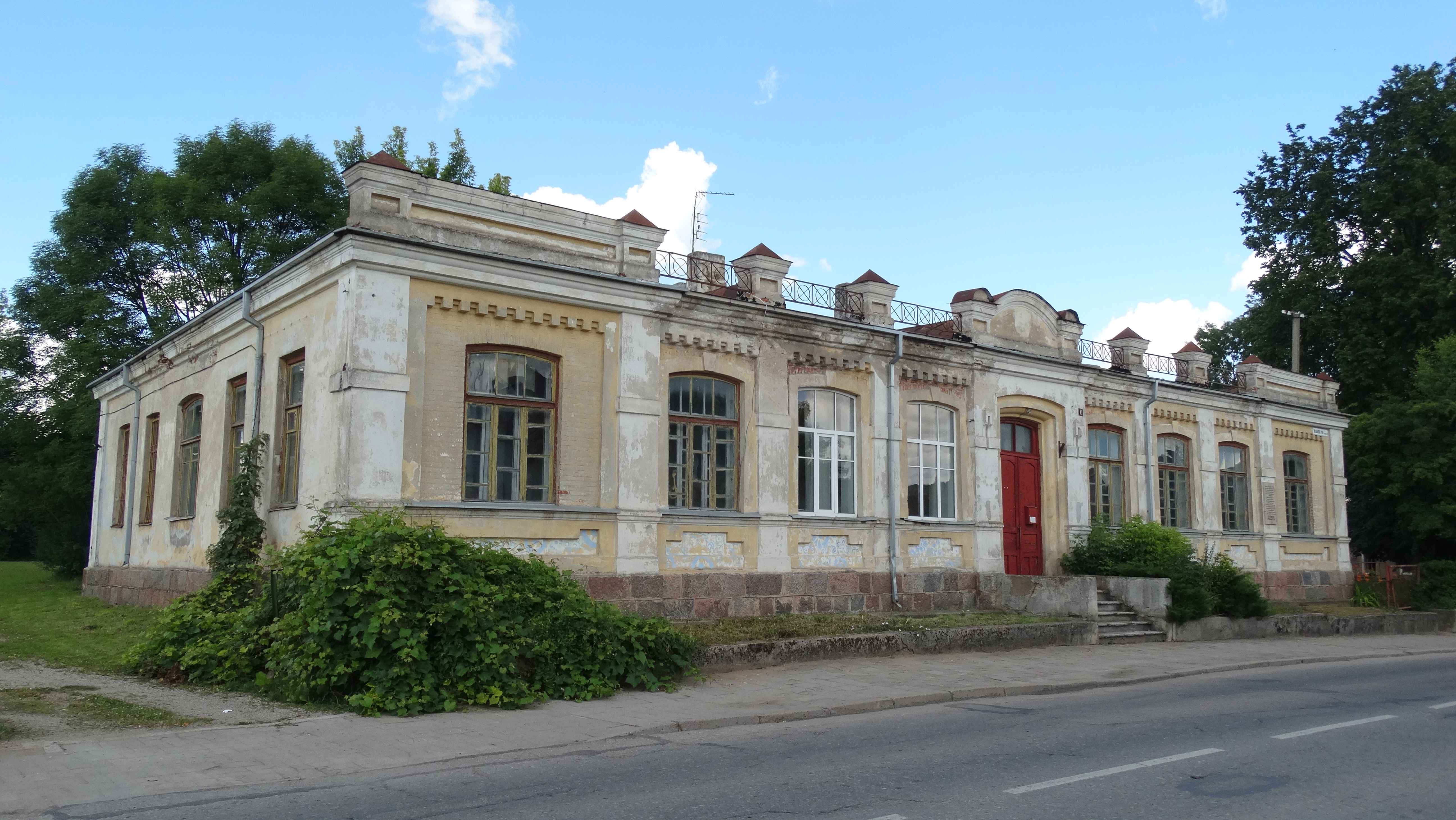 Former Jewish primary school, Ukmergė, Lithuania